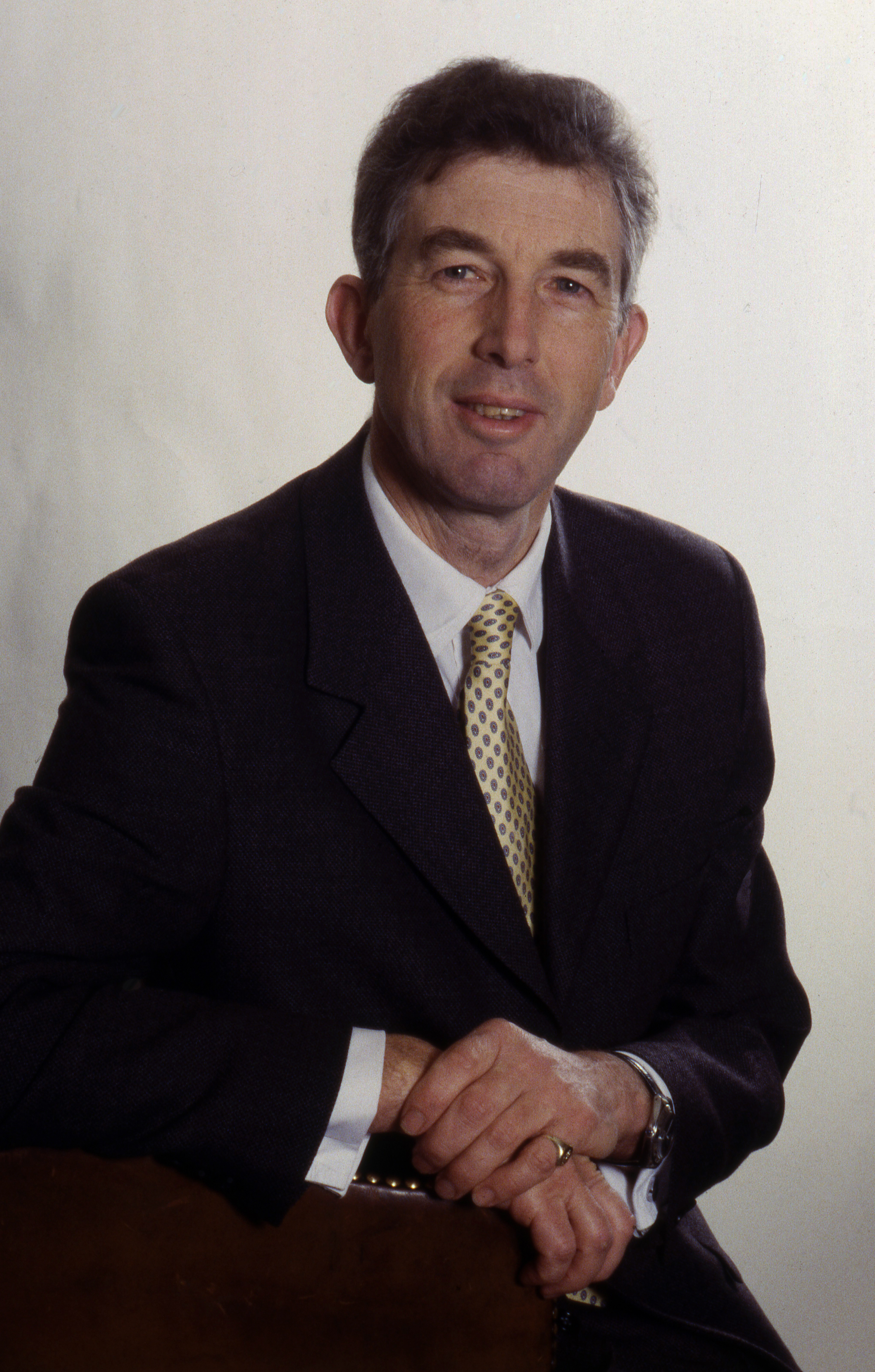 Portrait 19th Duke of Somerset taken at photographer's studio